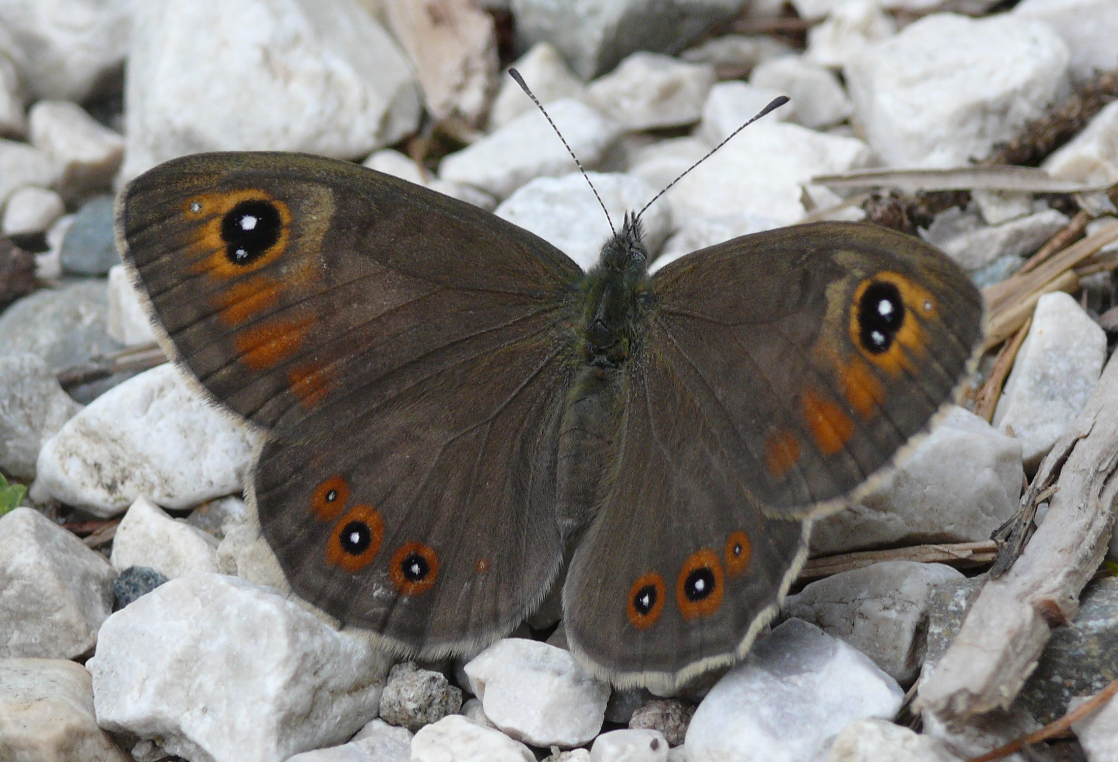 female Large Wall Brown (Lasiommata maera), South Tyrol